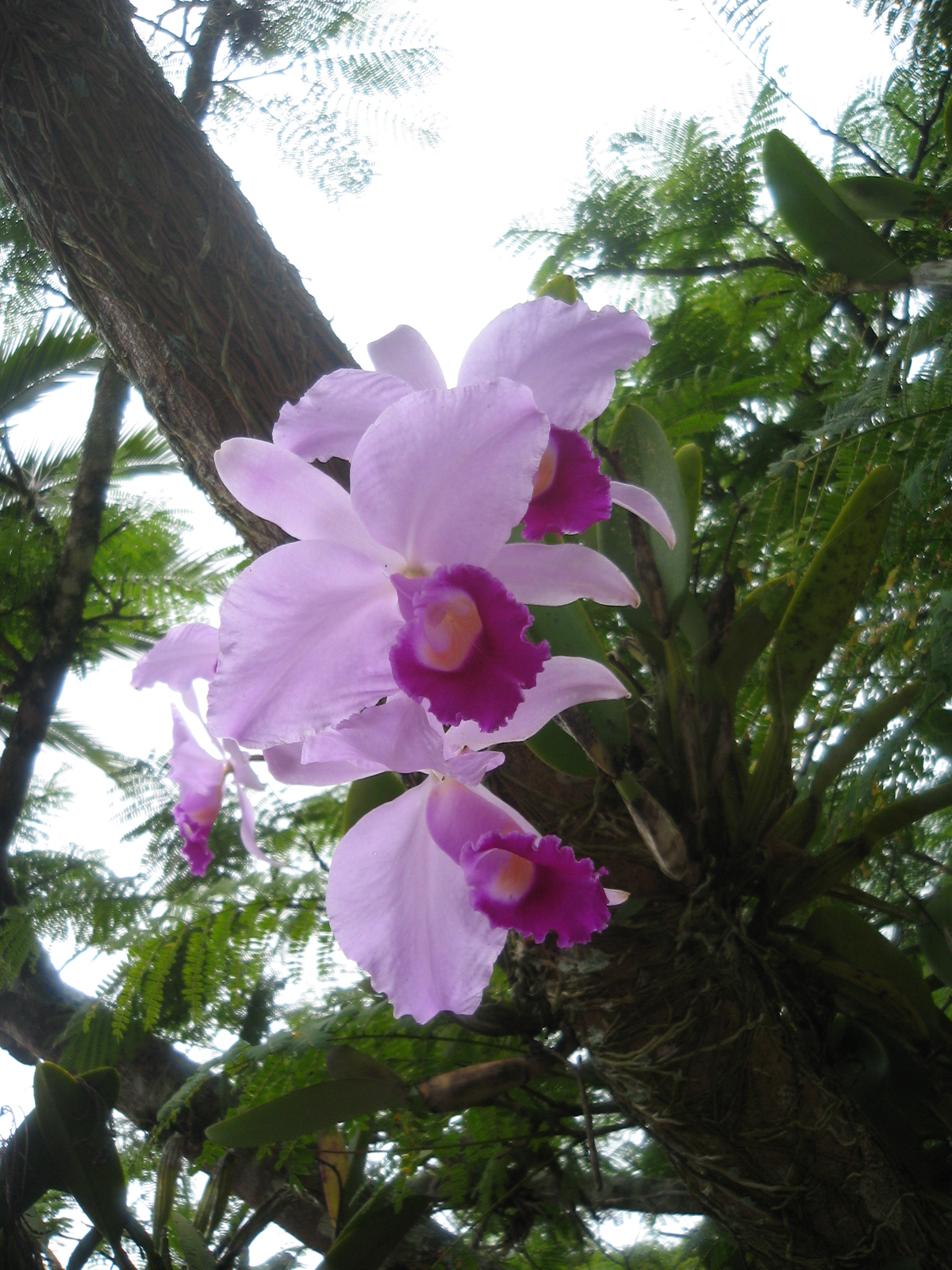 Wild Orchids